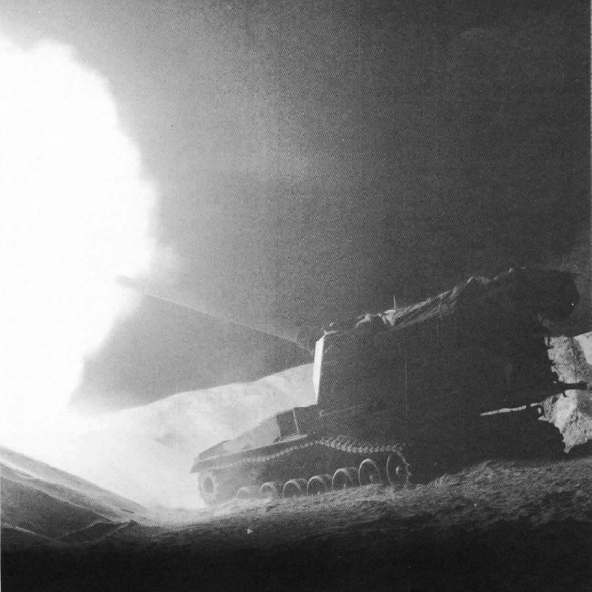 At night, the 3rd 8-inch Howitzer Battery at Da Nang fires one of its self propelled M66 8-inch howitzers, which had a maximum range of nealy 17,000 meters